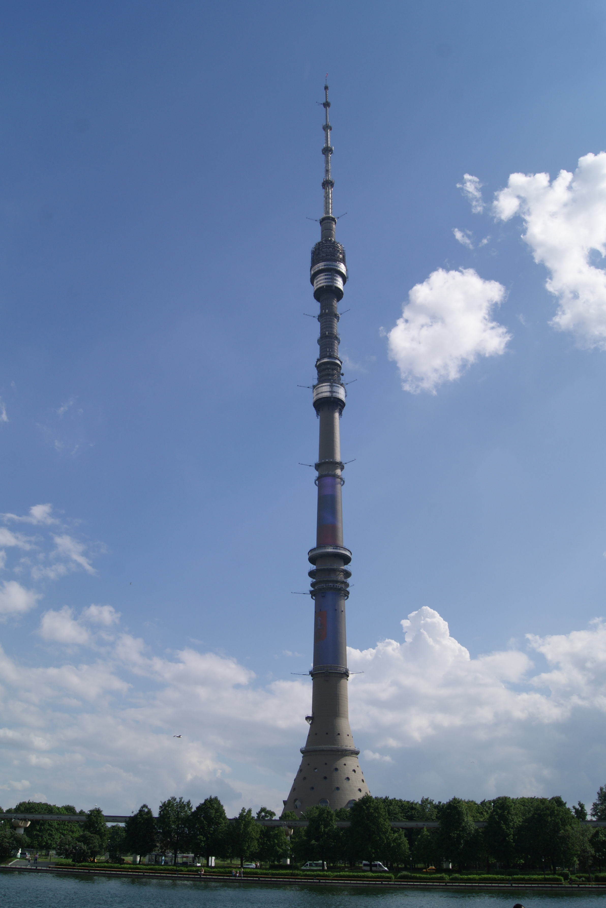 Ostankino Tower, 2015